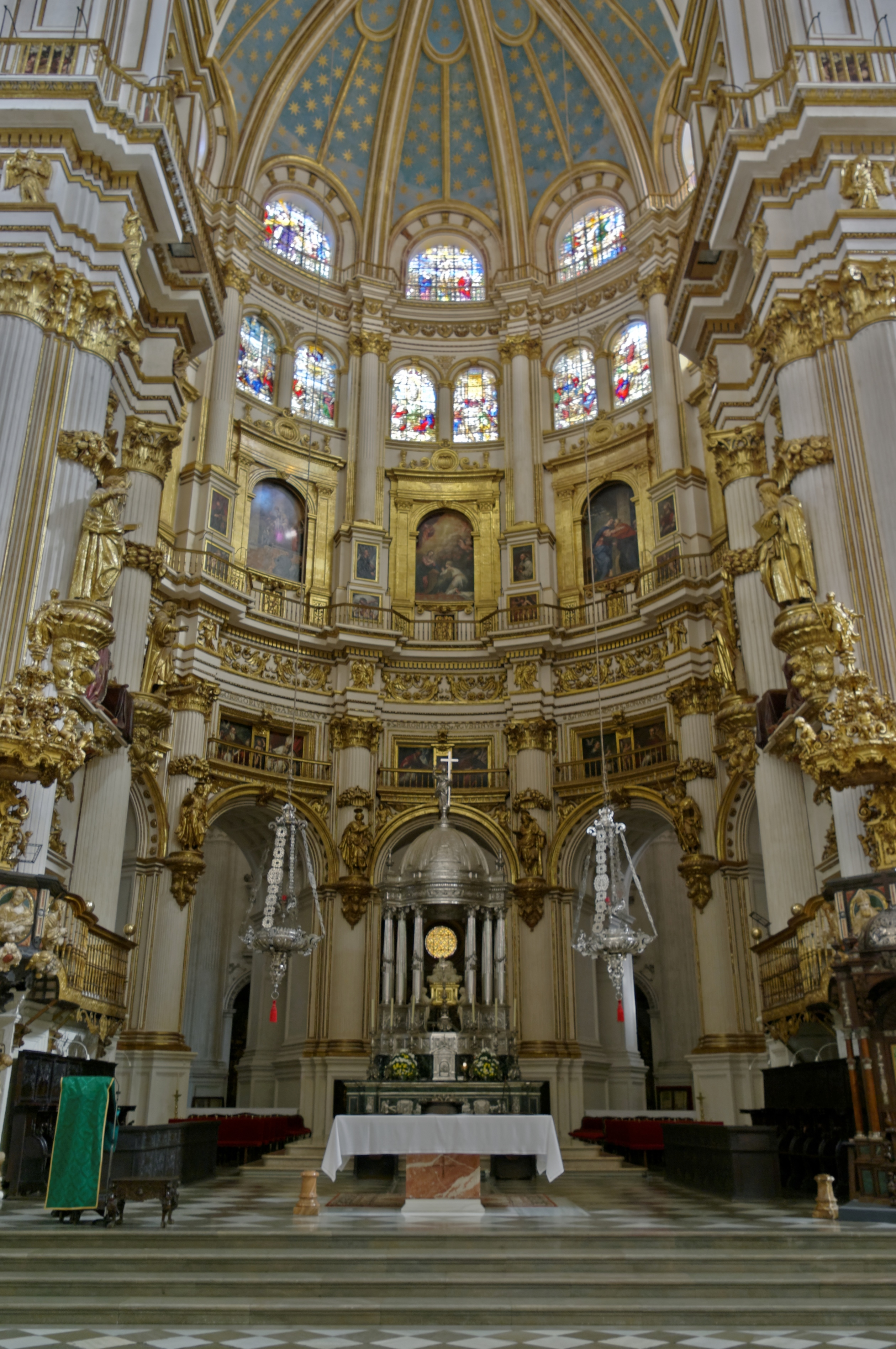 Spain, Granada, cathedral